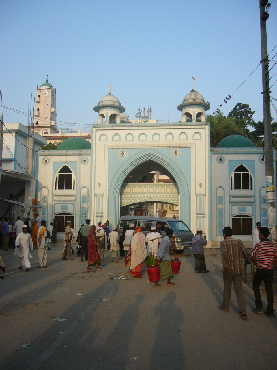 Shrine of Hazrat Shah Jalal Sylhet Bangladesh